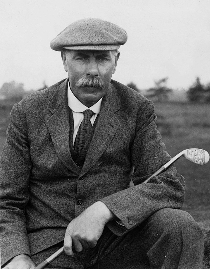 1927: Celebrated Scottish golfer and five times winner of the British Open Championship James Braid (1870 - 1950). Braid, born in Earlsferry, Fife, won his first Open title in 1901 and went on to become the first of 'The Great Triumvirate' of Braid, Harry Vardon and J H Taylor to win 5 titles (1903, 1905-6, 1908 and 1910). Horace Hutchinson said that Braid had a 'drive with divine fury' and he pioneered the explosion shot from sandy bunkers.